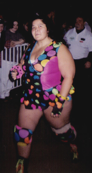 Berhta Faye at a WWF event in 1995